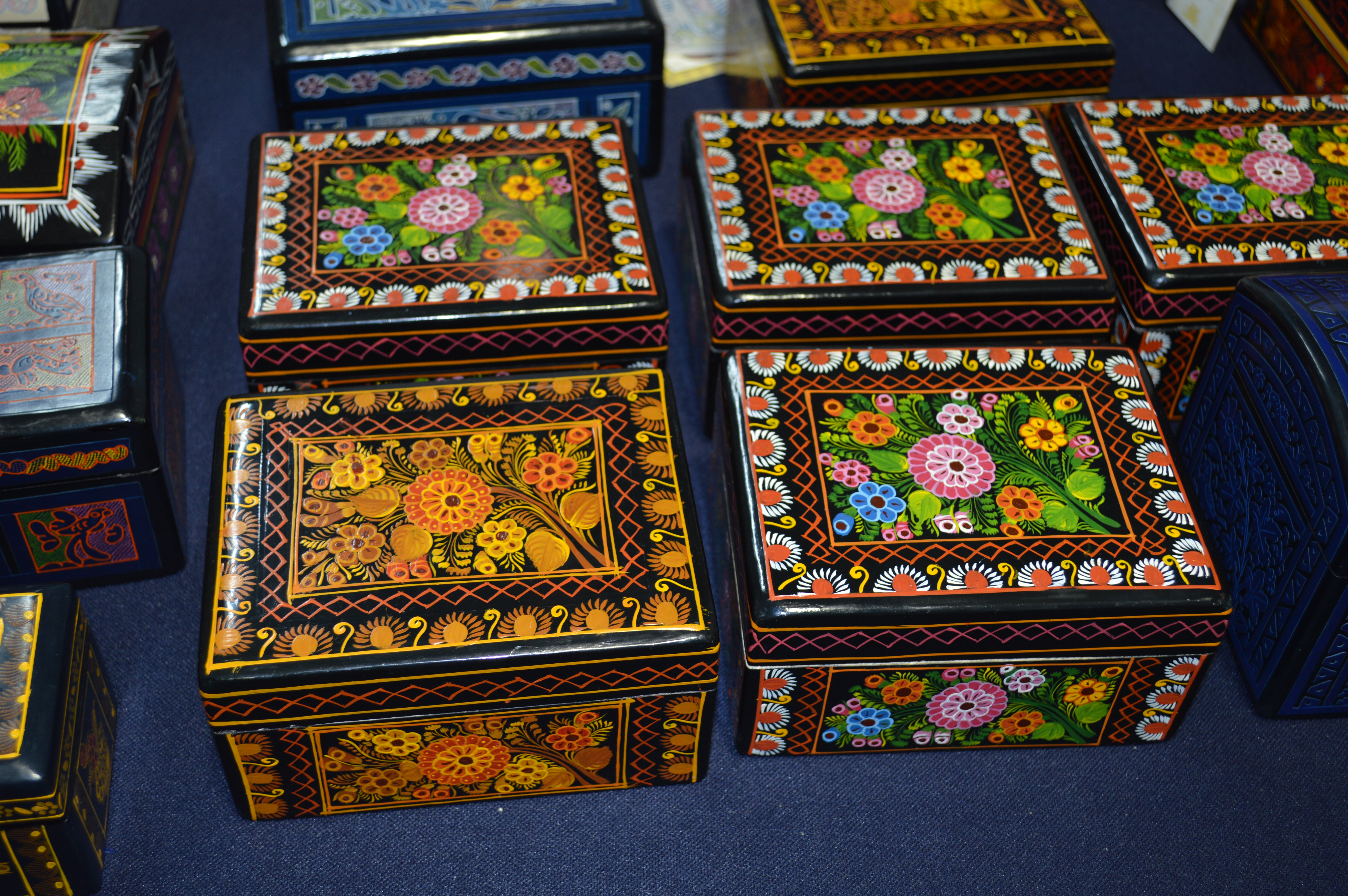 Lacquer boxes from Olinalá Guerrero on display at the Expo de los Pueblos Indígenas in Mexico City